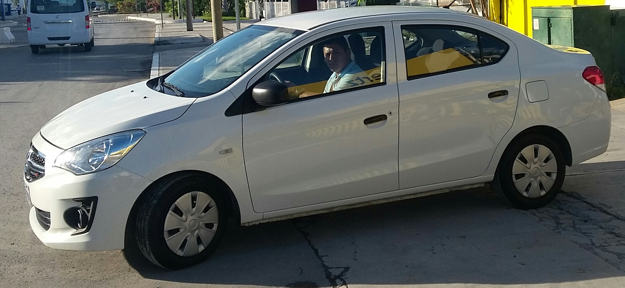 2015-present Dodge Attitude photographed in Cancun, Quintana Roo, Mexico.